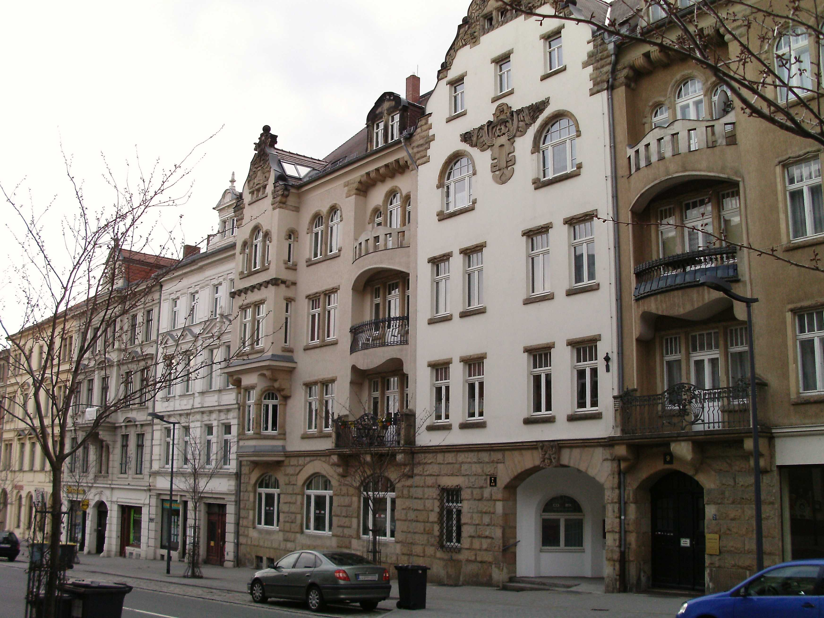 Houses at Bahnhofstrasse in Zittau (Görlitz district, Saxony)